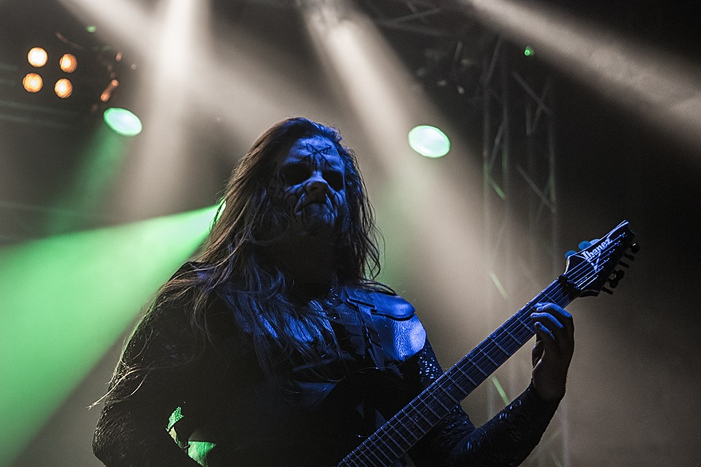 Cradle of Filth - 7.12.2012 - Music Hall, Geiselwind